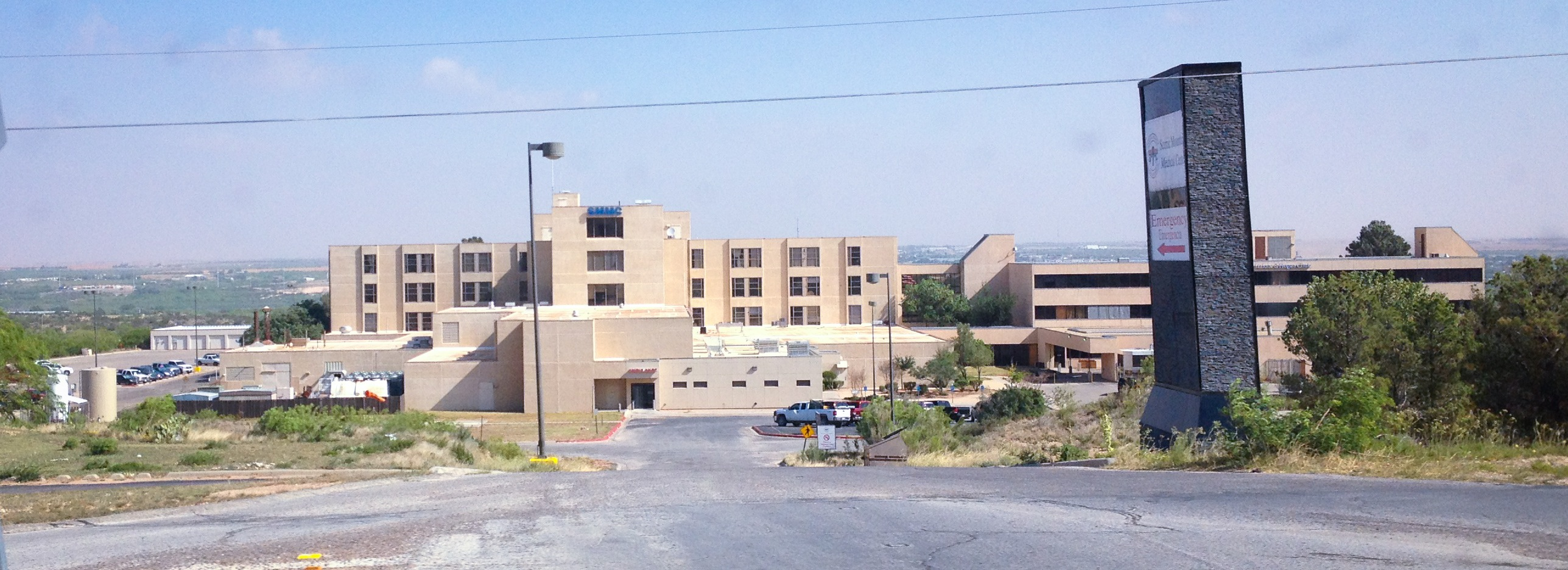 Scenic Mountain Medical Center (SMMC) in Big Spring, Texas.